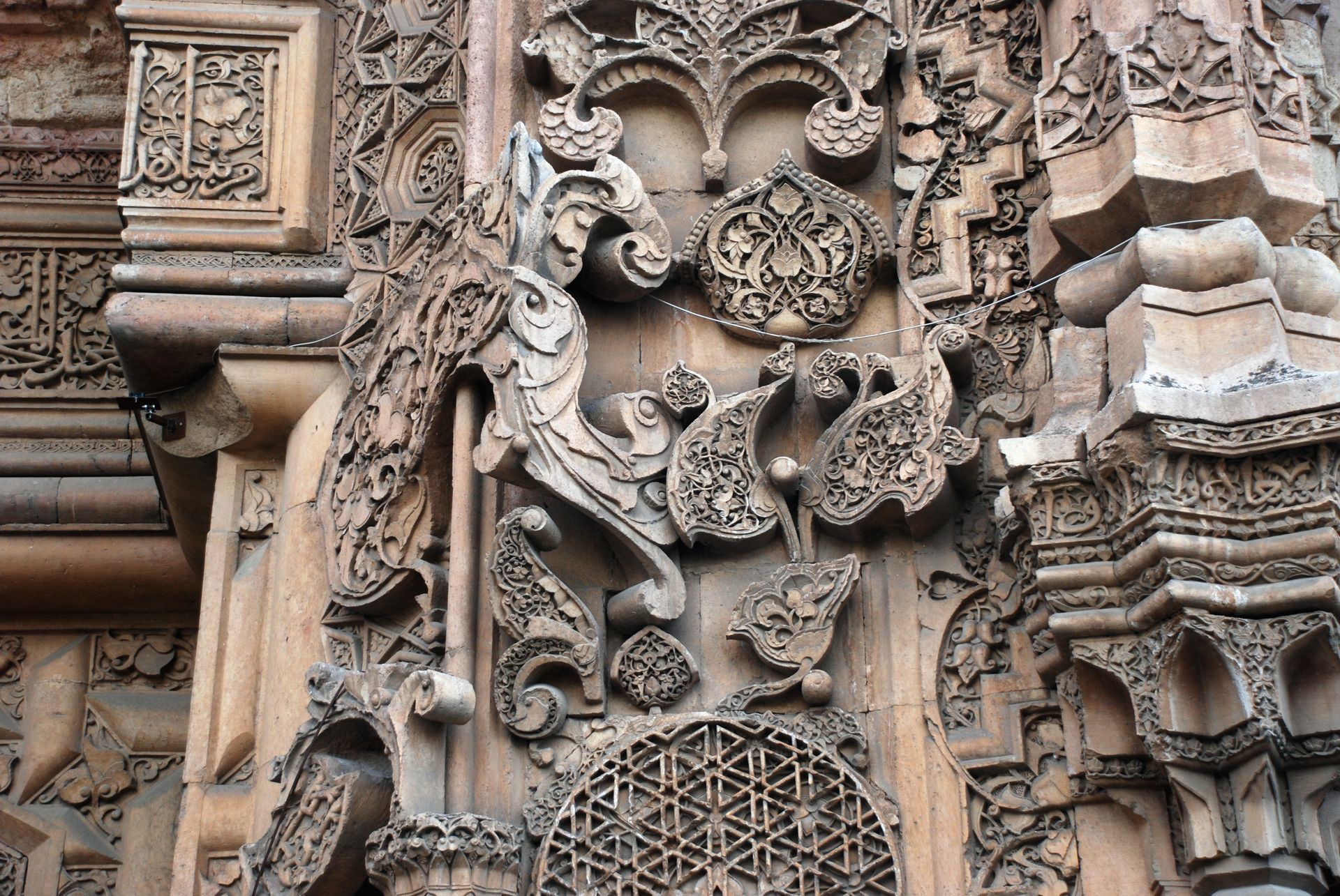 Divriği, north portal mosque